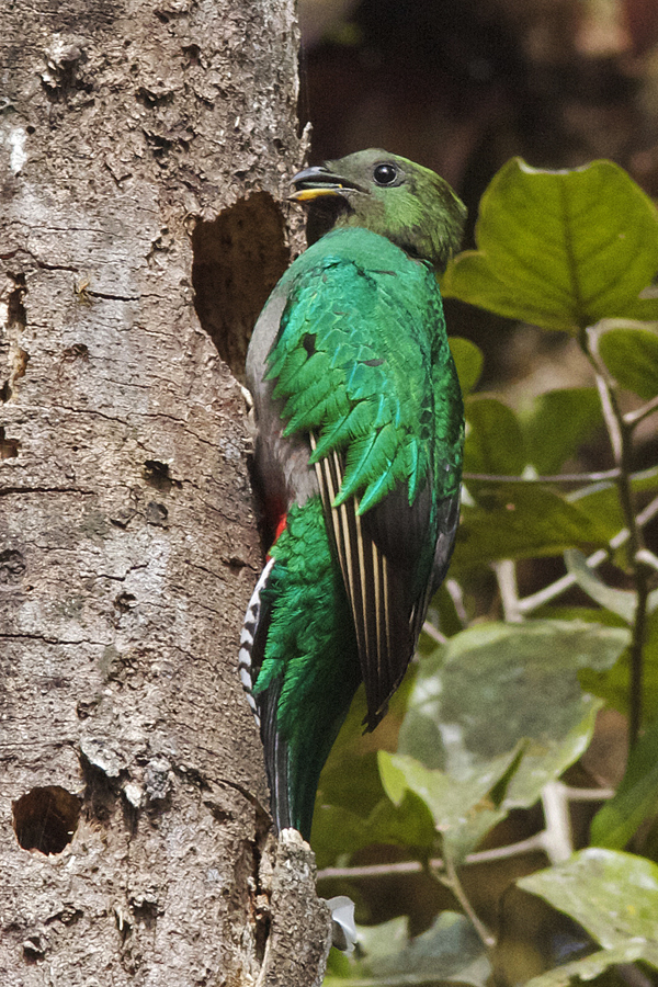 Resplendent Quetzal (female) photo taken at taken at Savegre Mountain Hotel, Costa Rica.